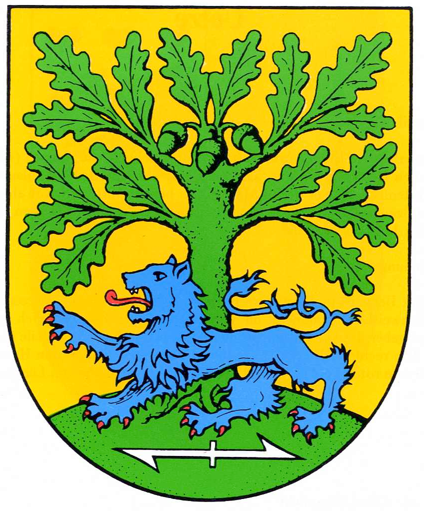 Coat of Arms of Wedemark